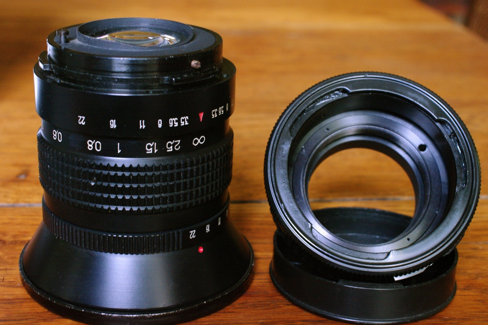 Pentacon six lens adapter and Mir-26 lens showing the Pentacon six breach mount